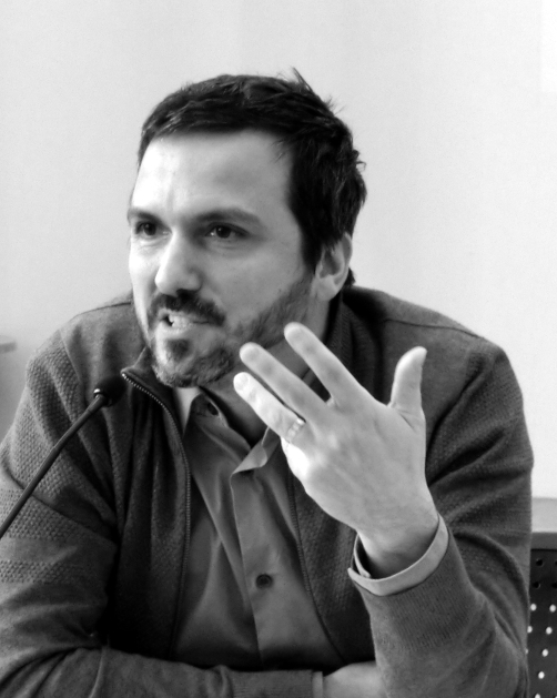 Mario Candeias